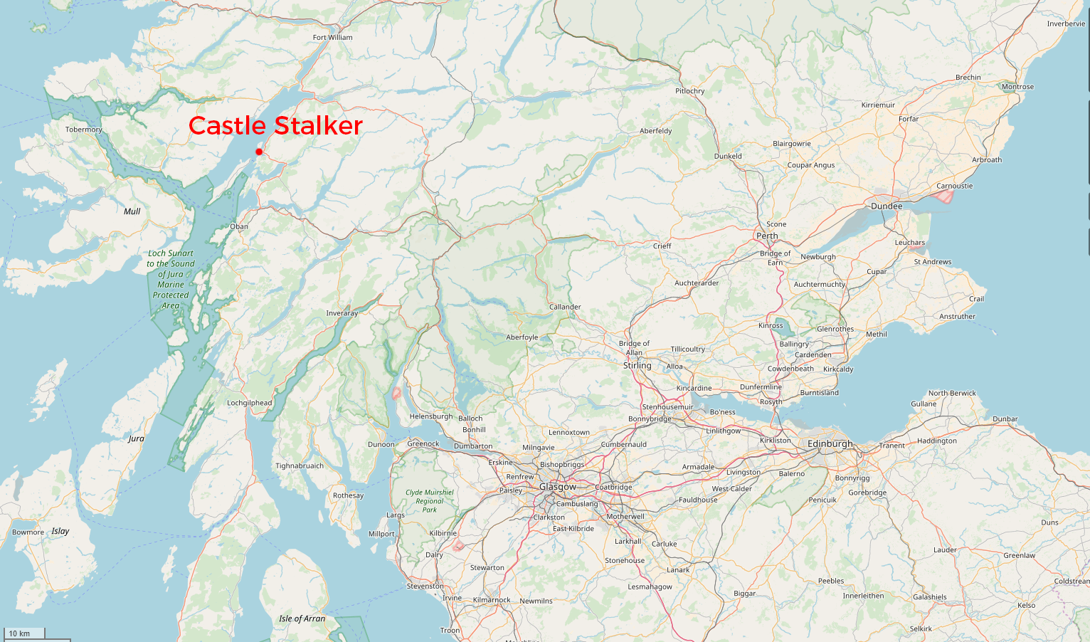 Castle Stalker map